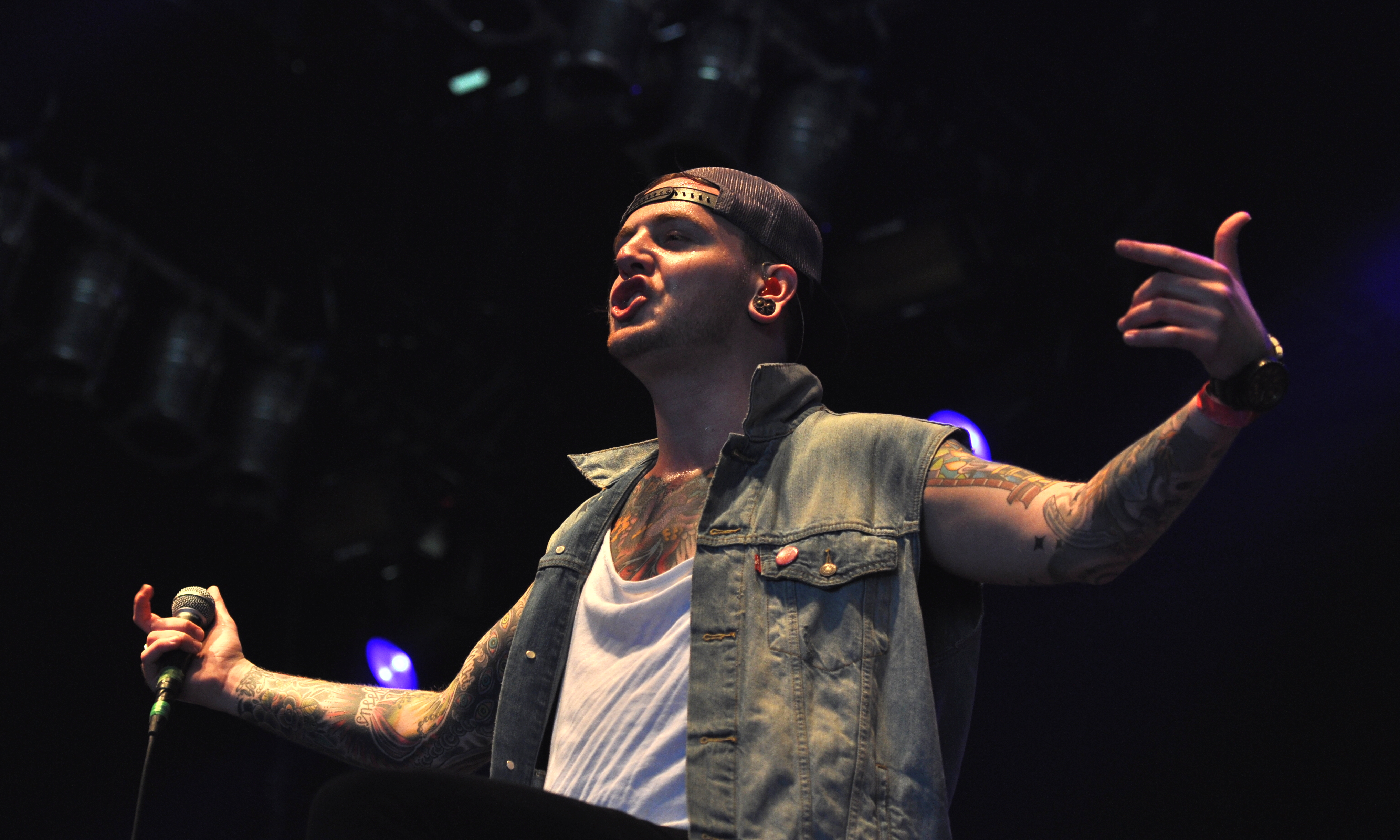 Chelsea Grin at Groezrock 2013